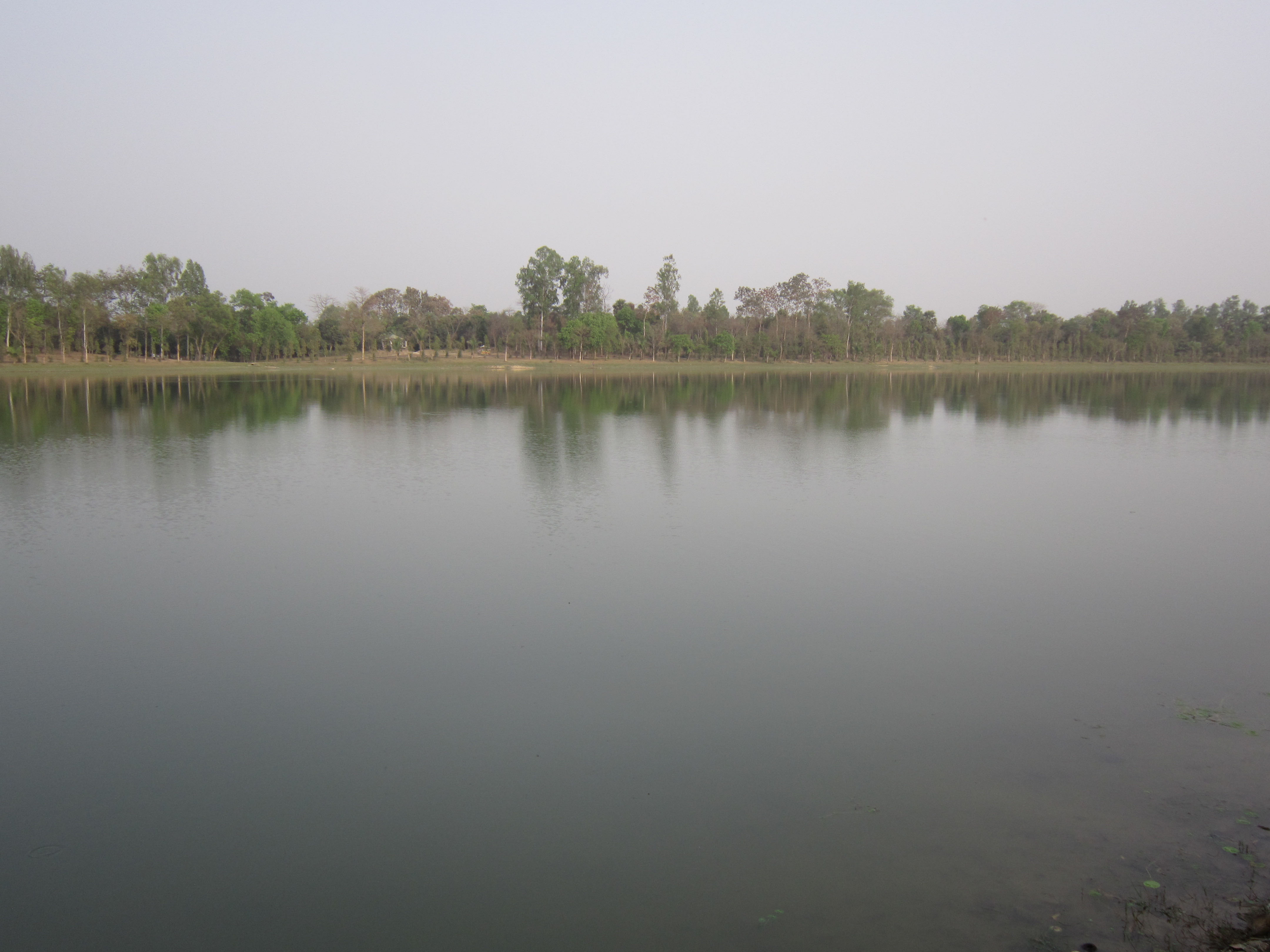 its the picture of a big pond of bangladesh named RAMSAGOR situated in Dinajpur District of Bangladesh.It hasa great historical value with a nice myth